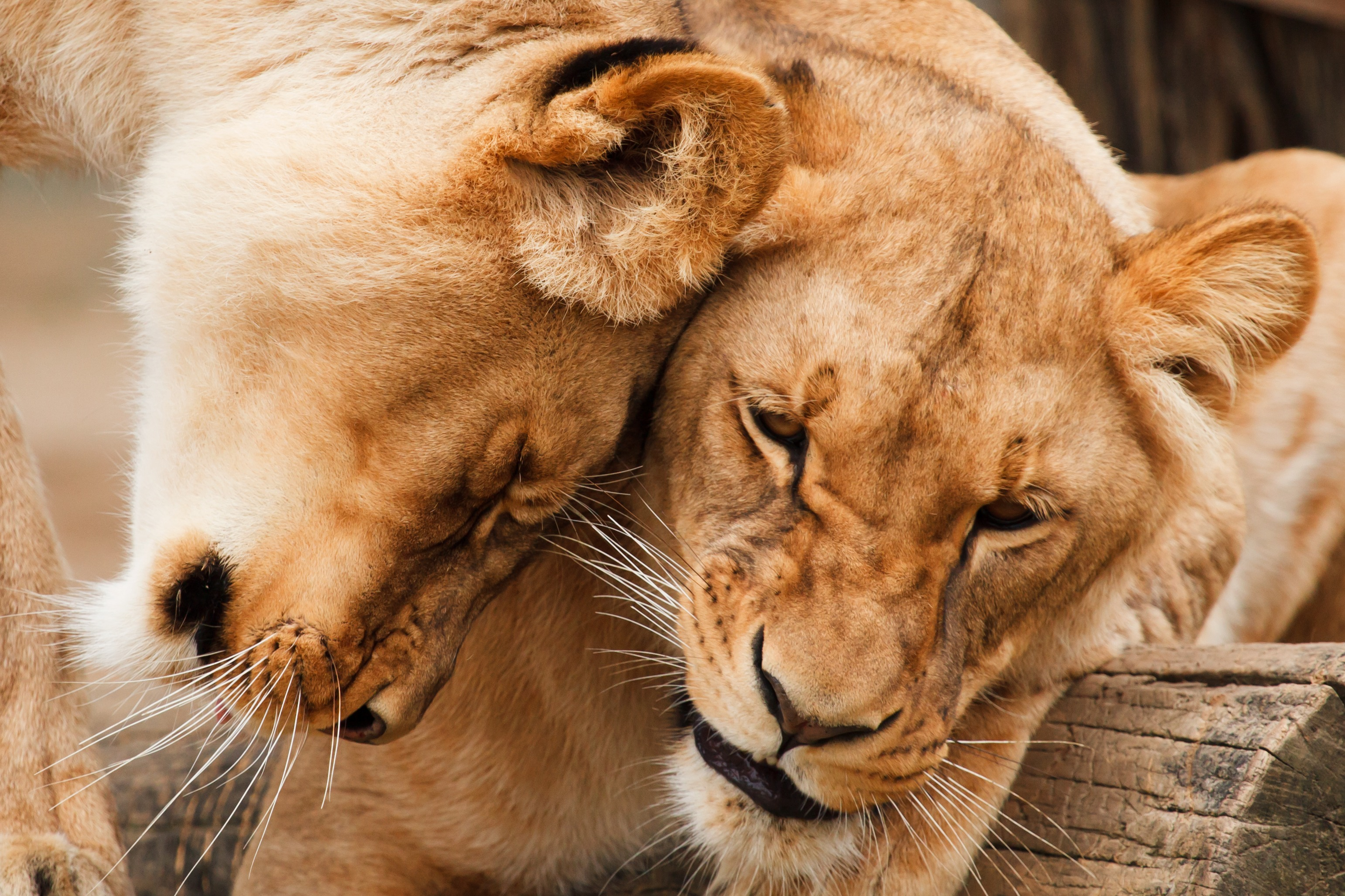 Two cuddling lionesses.